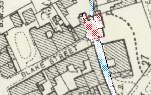 It shows the location in Blake Street, Bridgwater.